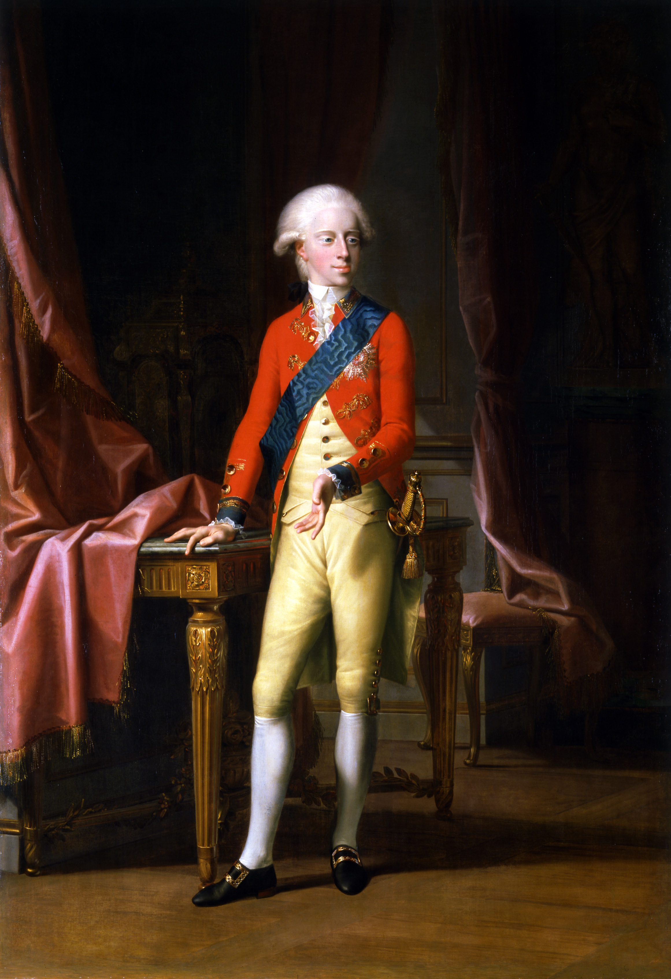 Frederik VI of Denmark as crown-prince and regent of the realm